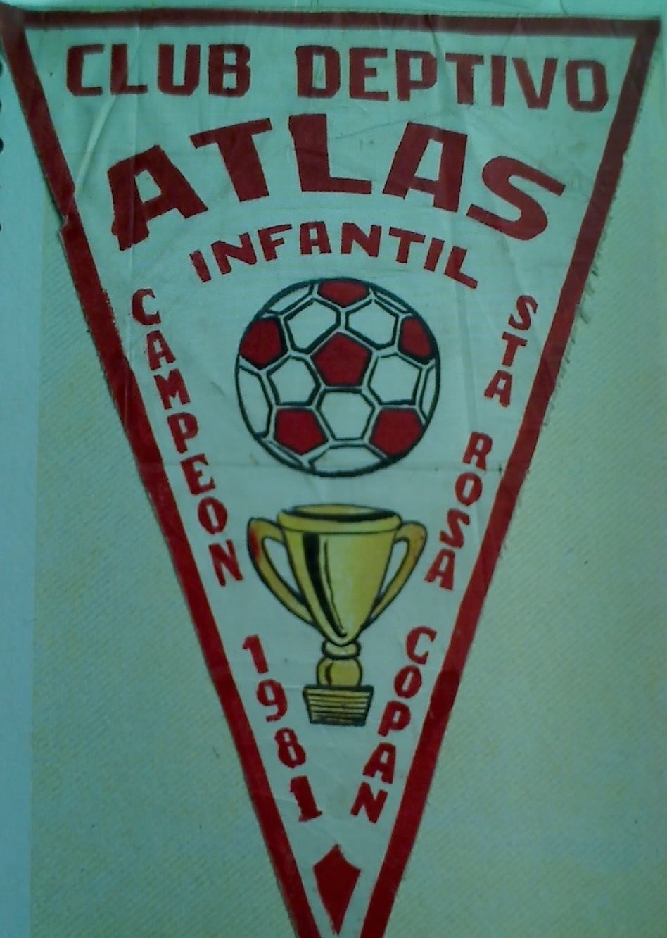 Child championship banner 1981, the Club Deportivo Atlas of Santa Rosa de Copan.